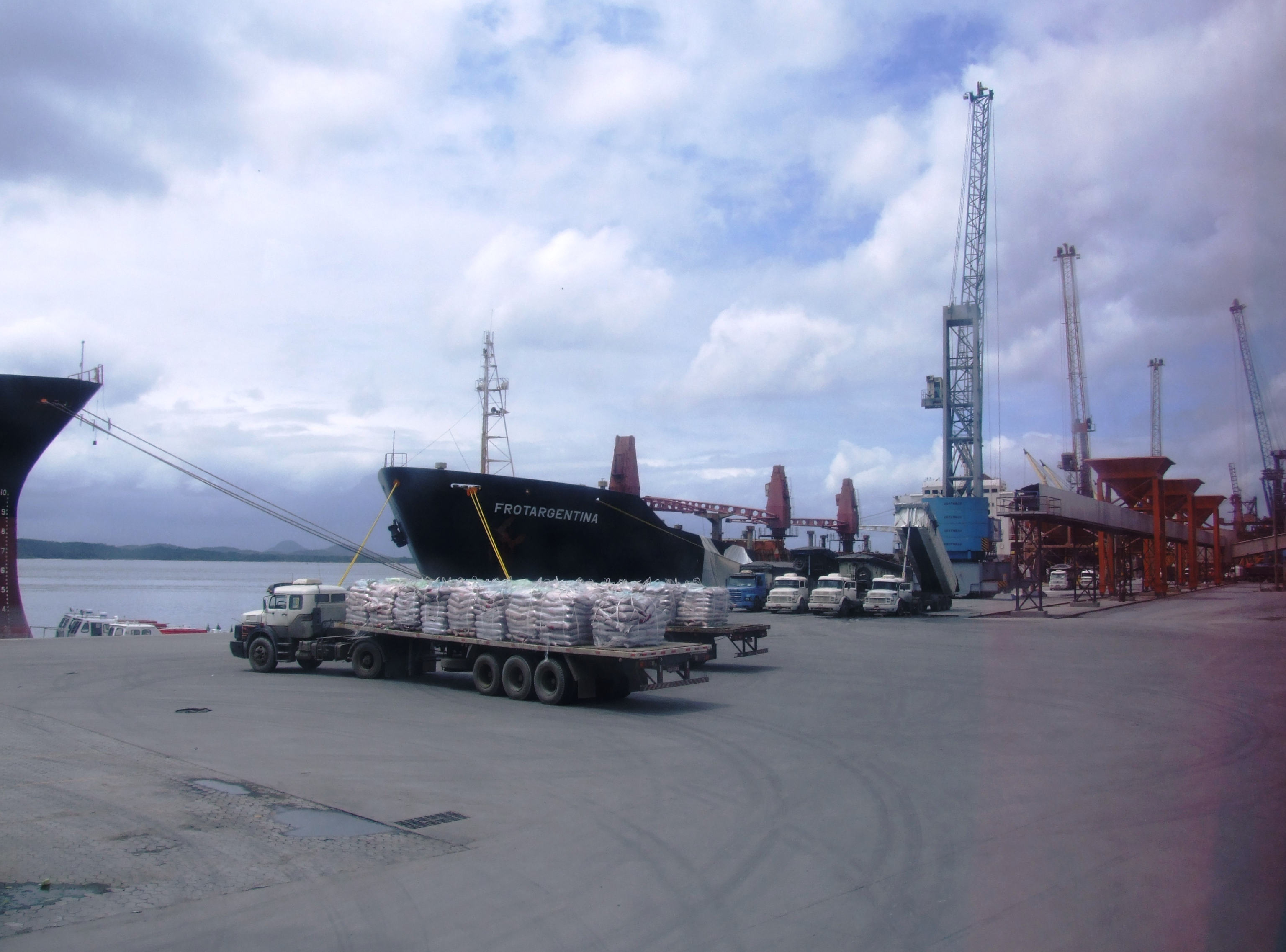 Port of Paranaguá.